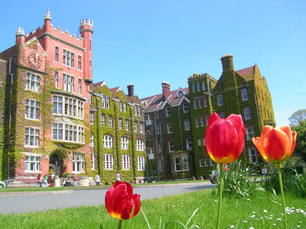 View of the main building of St Lawrence College, Ramsgate